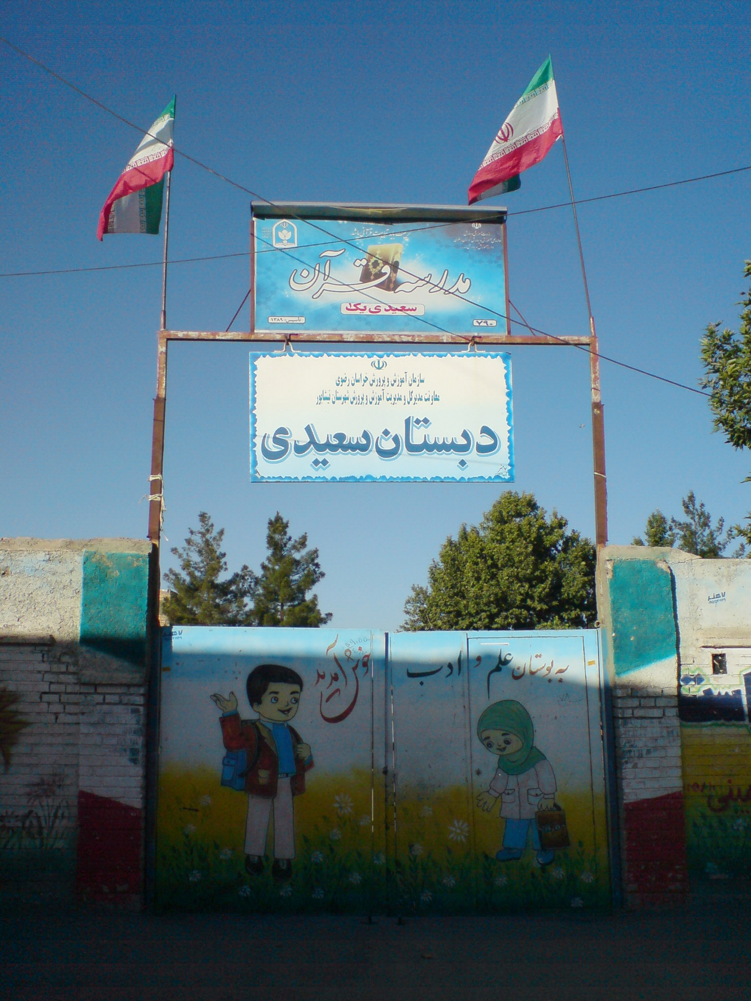 Abdullah_Saeedi_Elementry_school_nishapur